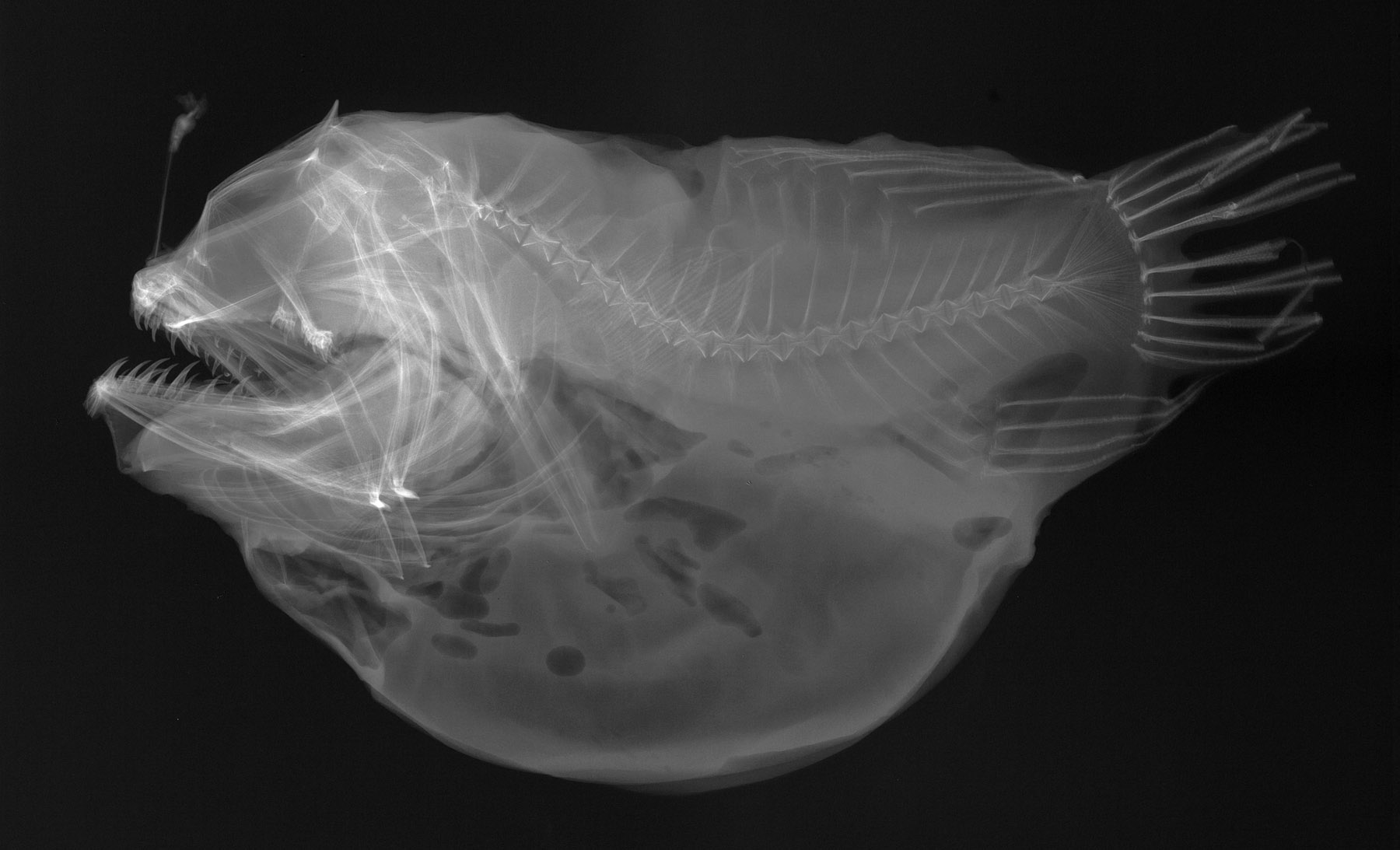 Dermatias platynogaster, X-ray image